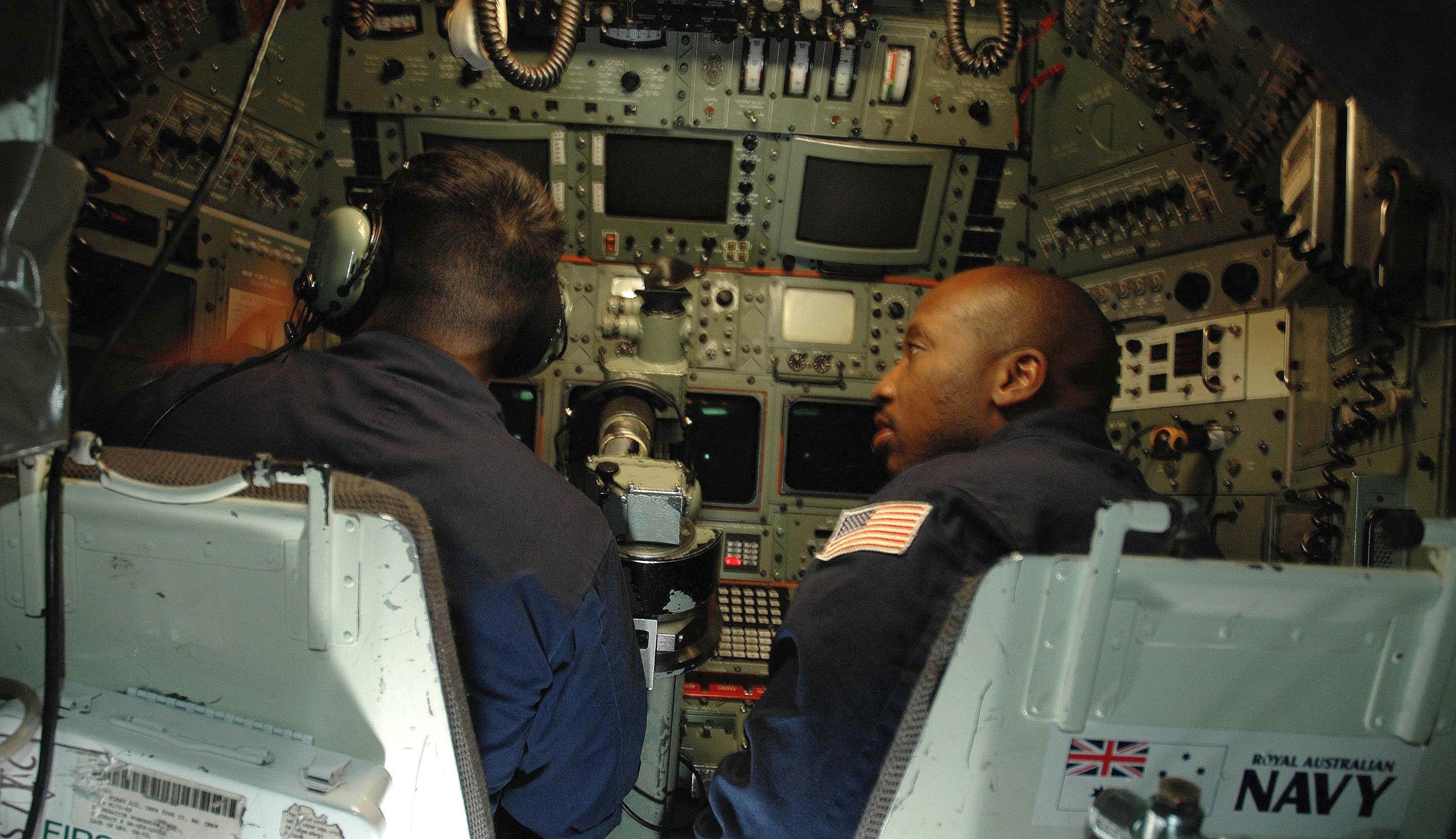 Pacific Ocean (Dec. 14, 2005) – Machinists Mate 2nd Class Raul Robles and Electronics Technician 1st Class Nathaniel Stiles conduct pre-launch check on Deep Submergence Rescue Vehicle Mystic (DSRV-1) the coast of Southern California during a visit from Russian Federation Navy Delegation. Russian Navy officers visited Deep Submergence Unit (DSU) to observe Mystic conduct recovery training. U.S. Navy photo by Photographer's Mate 3rd Class Timothy F. Sosa (RELEASED)